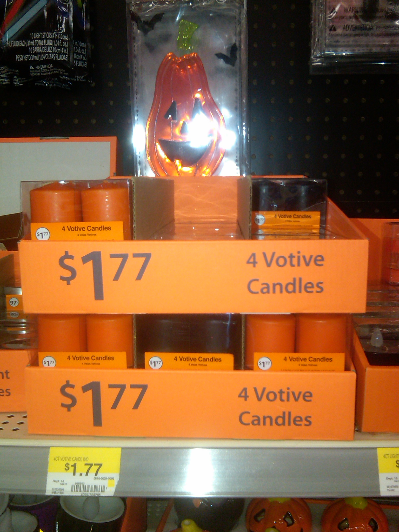 The image shows votive candles for sale in the Halloween aisle of a discount store, in Ravenna, Ohio. Votive candles are used by Christians during prayer and are especially popular items at department stores during Halloween, the day that starts the season in the Christian Year when the dead are remembered.